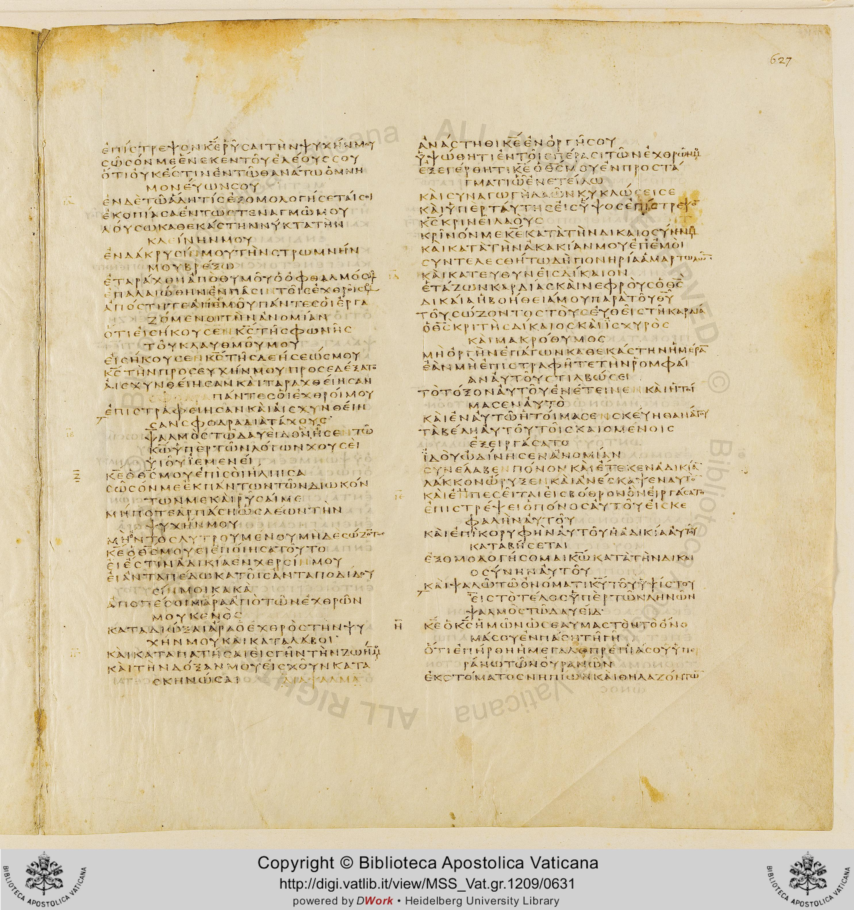 Vat.gr.1209 0631 Ps 7